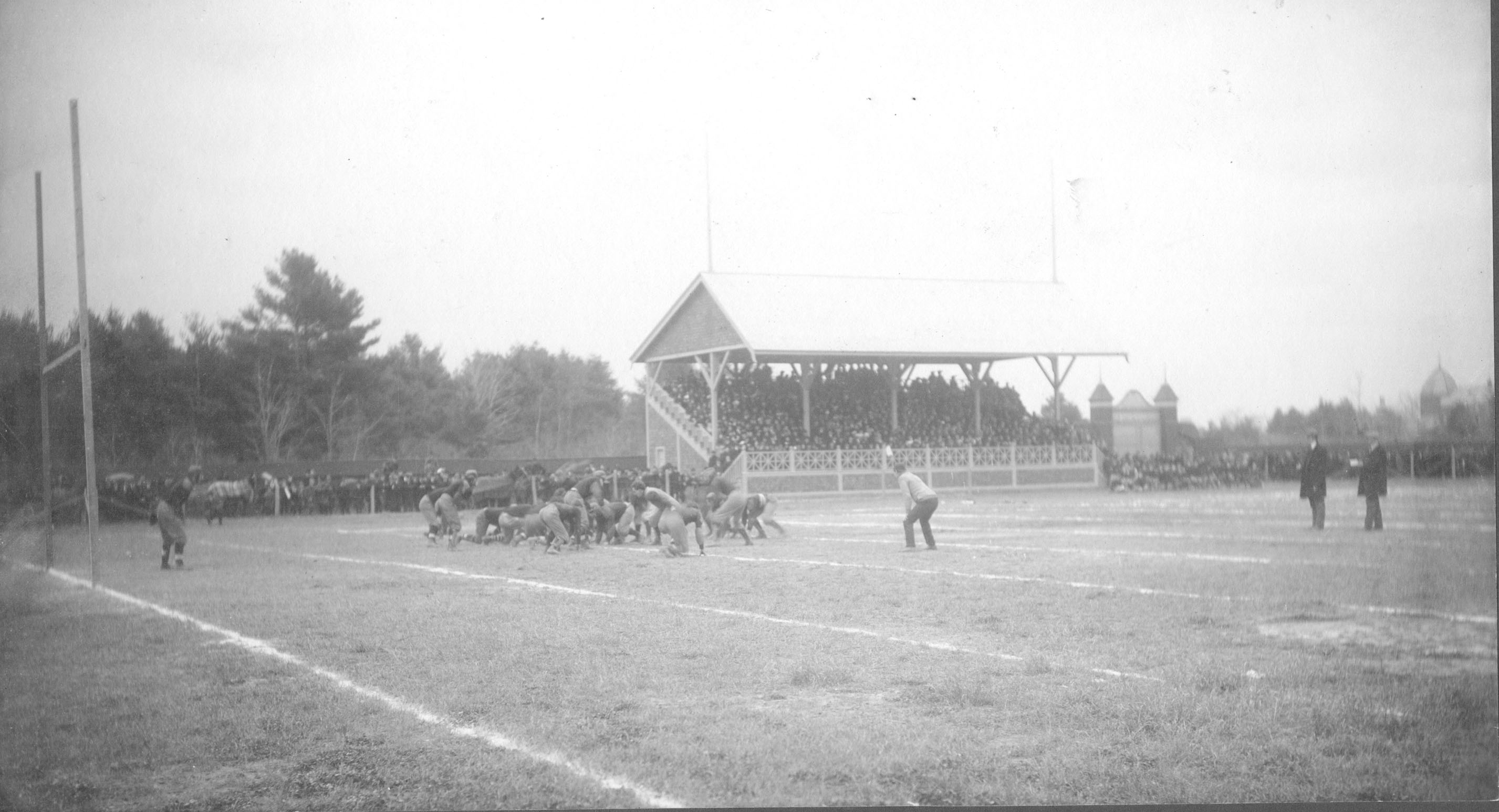 Bates College playing against Bowdoin College